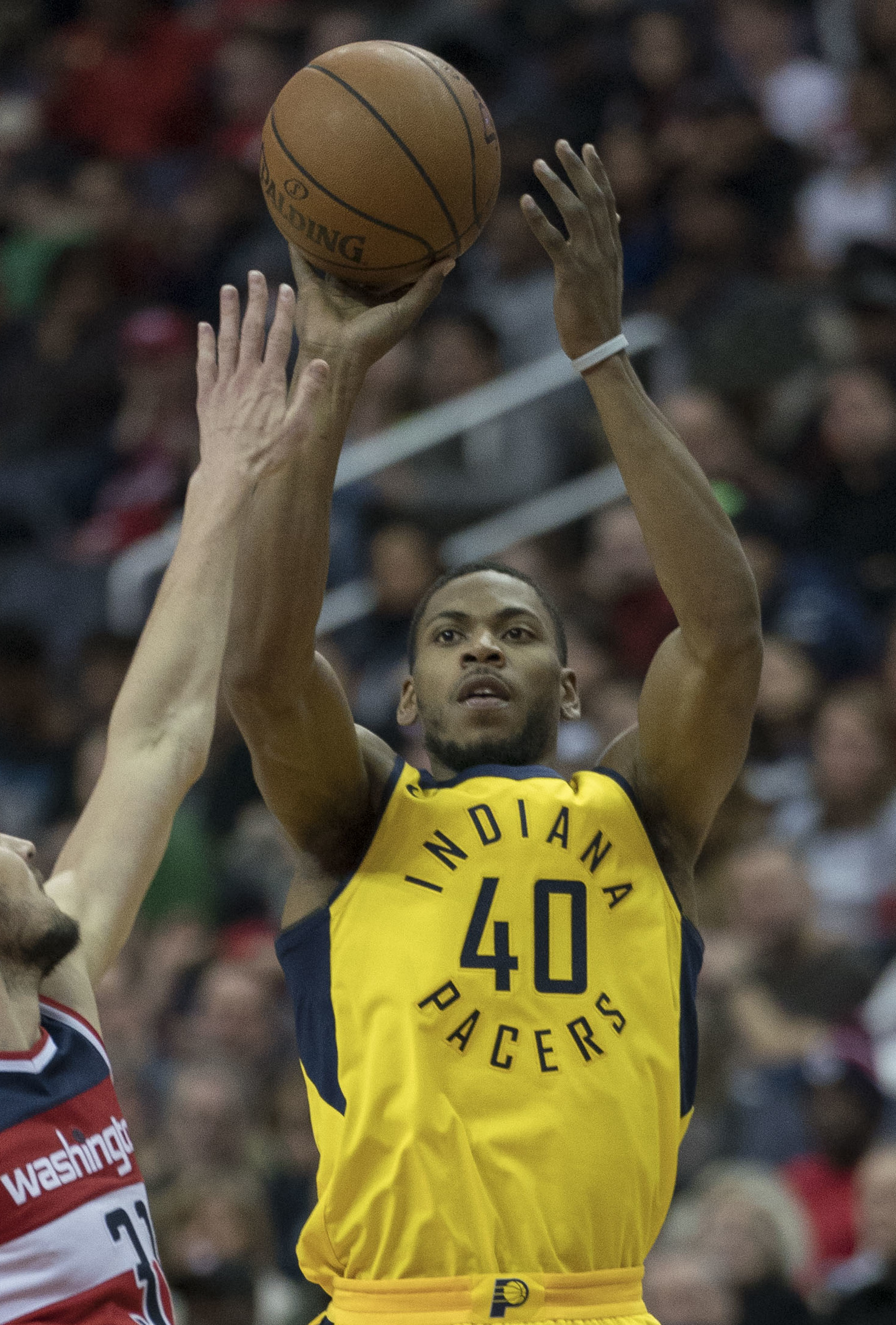 Pacers at Wizards 3/17/18